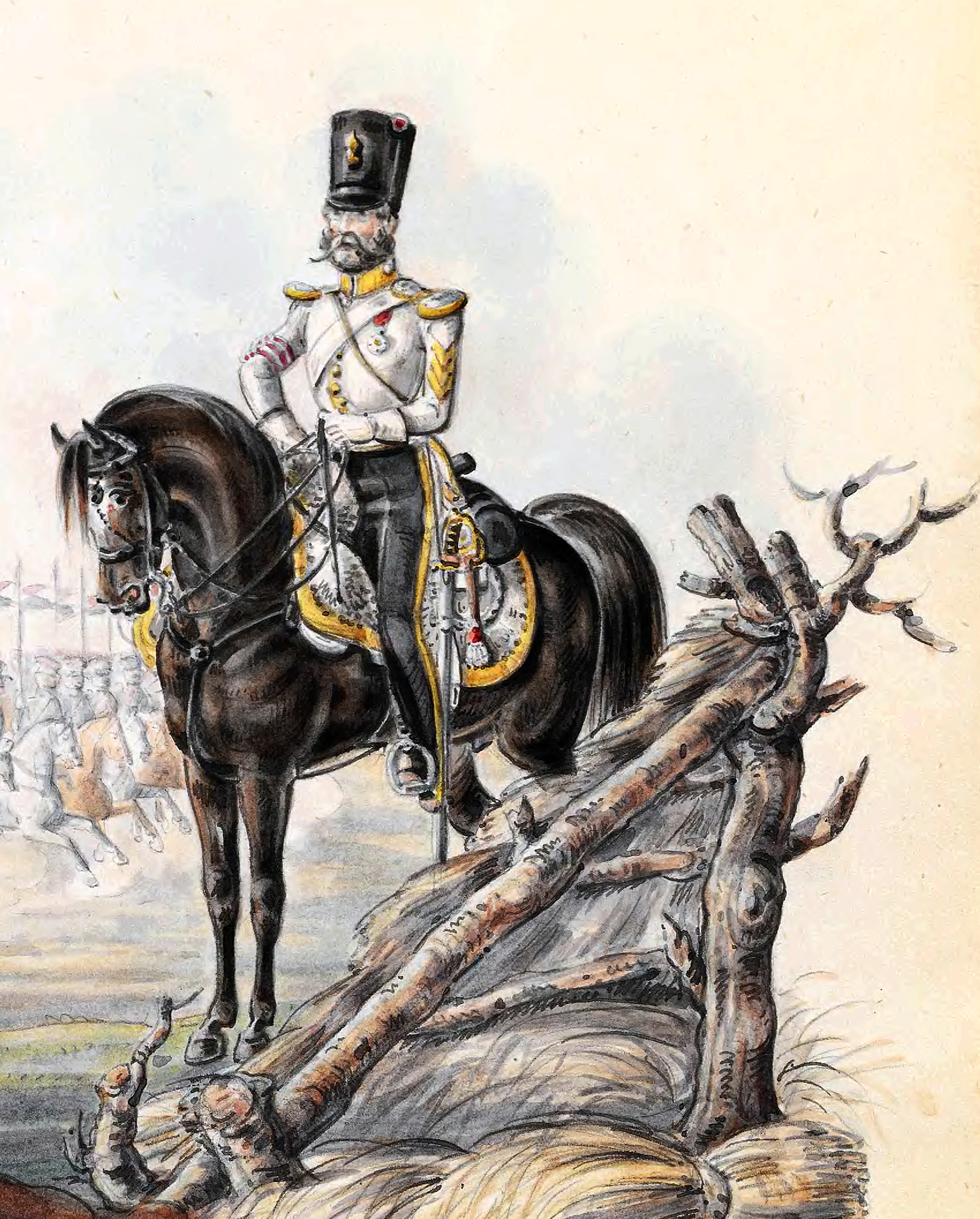 Officer of 7th Regiment of Augustów Cavalry